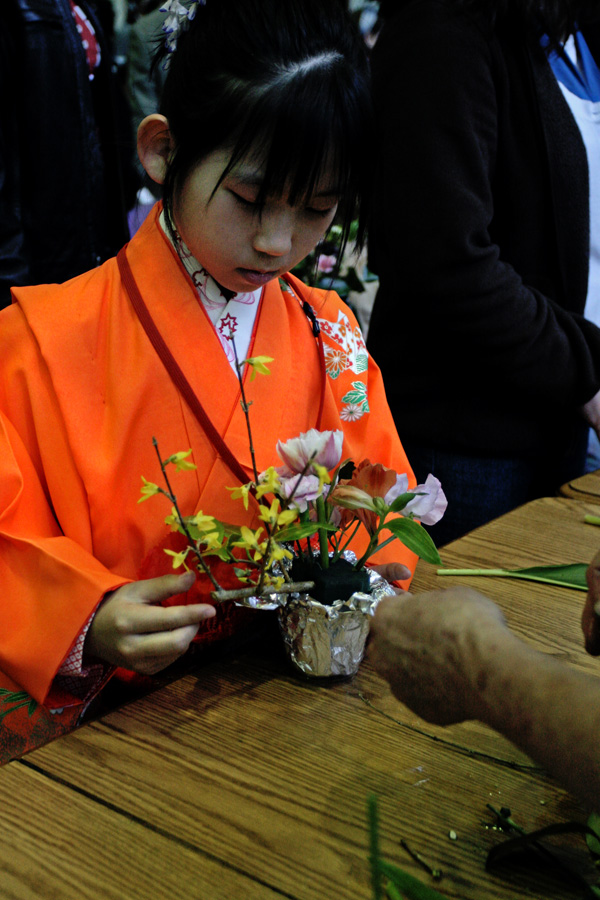 A young child is taught Ikebana, or flower arrangement, uring the Japanese Culture Festival held at Matthew C. Perry Elementary School here Sunday. Although participants were able to arrange their bouquets blankcanvas style, traditionally, the composition of the flower arrangement indicates the meaning of the bouquet. To learn more about Ikebana, sign up at Services Plus for one of the weekly classes held at the Library Mondays at 1 p.m. or Thursdays at 6 p.m.